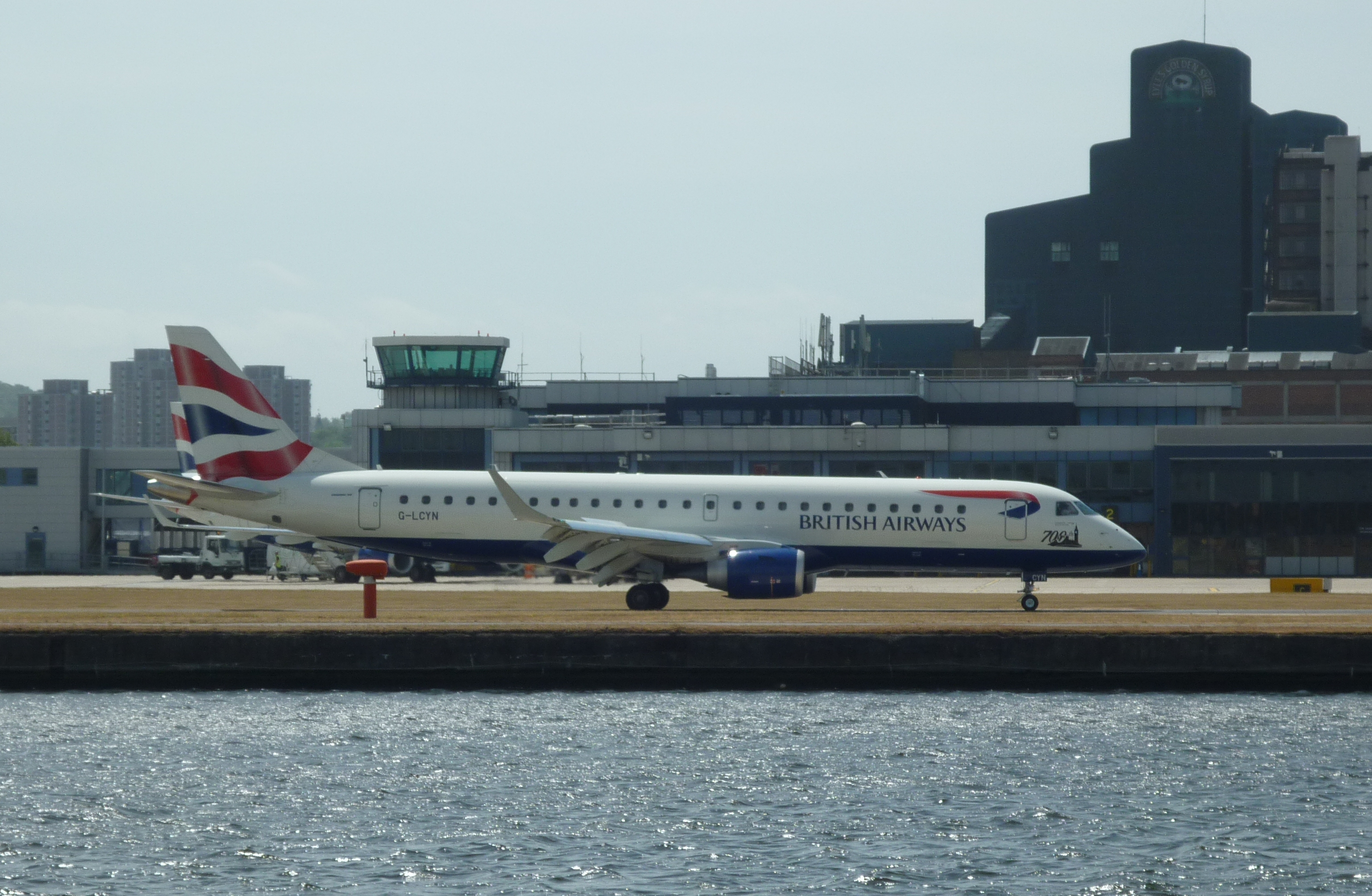 BA CityFlyer Embraer ERJ-190SR G-LCYN at London City Airport.